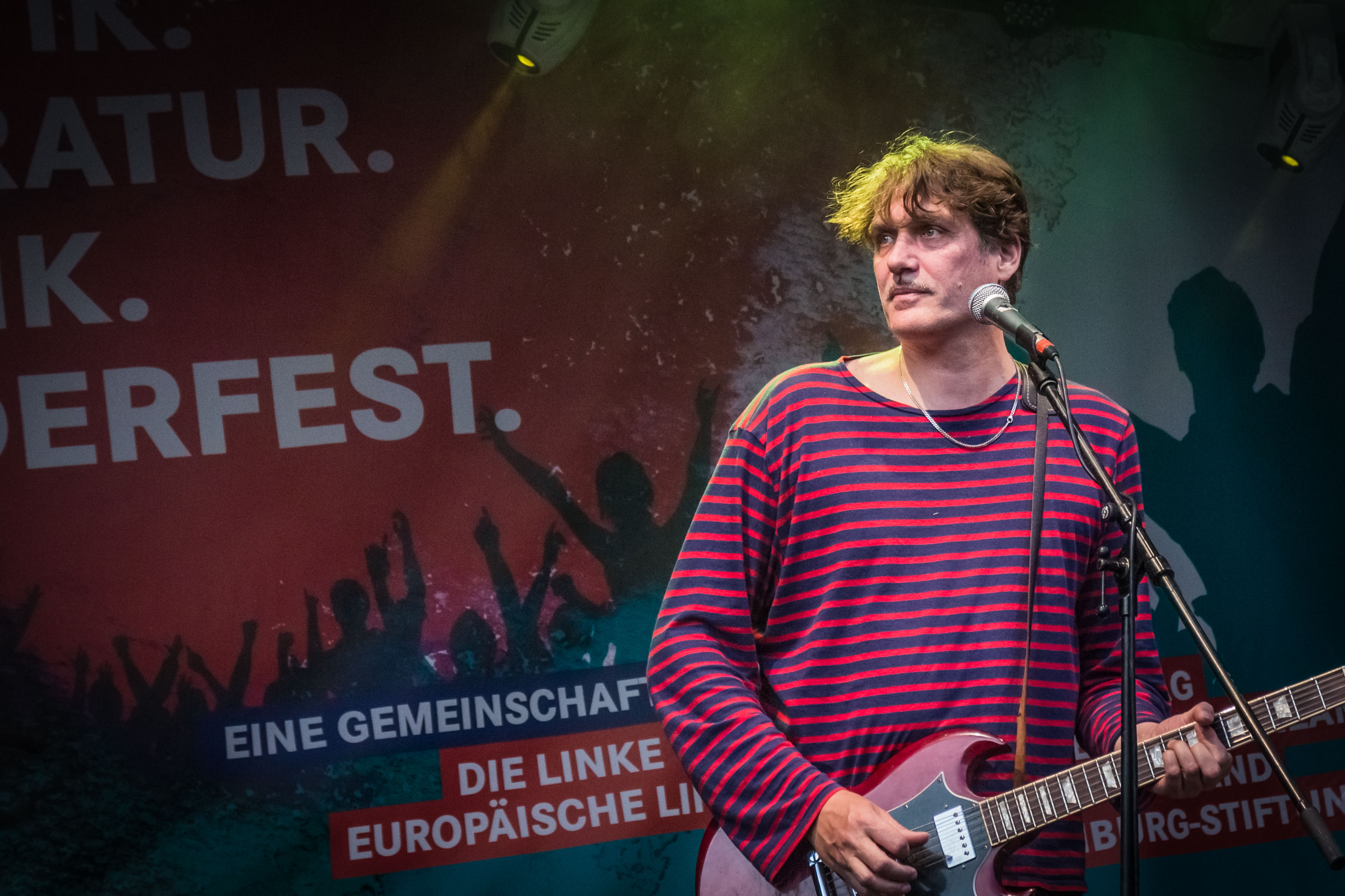 Frank Spilker